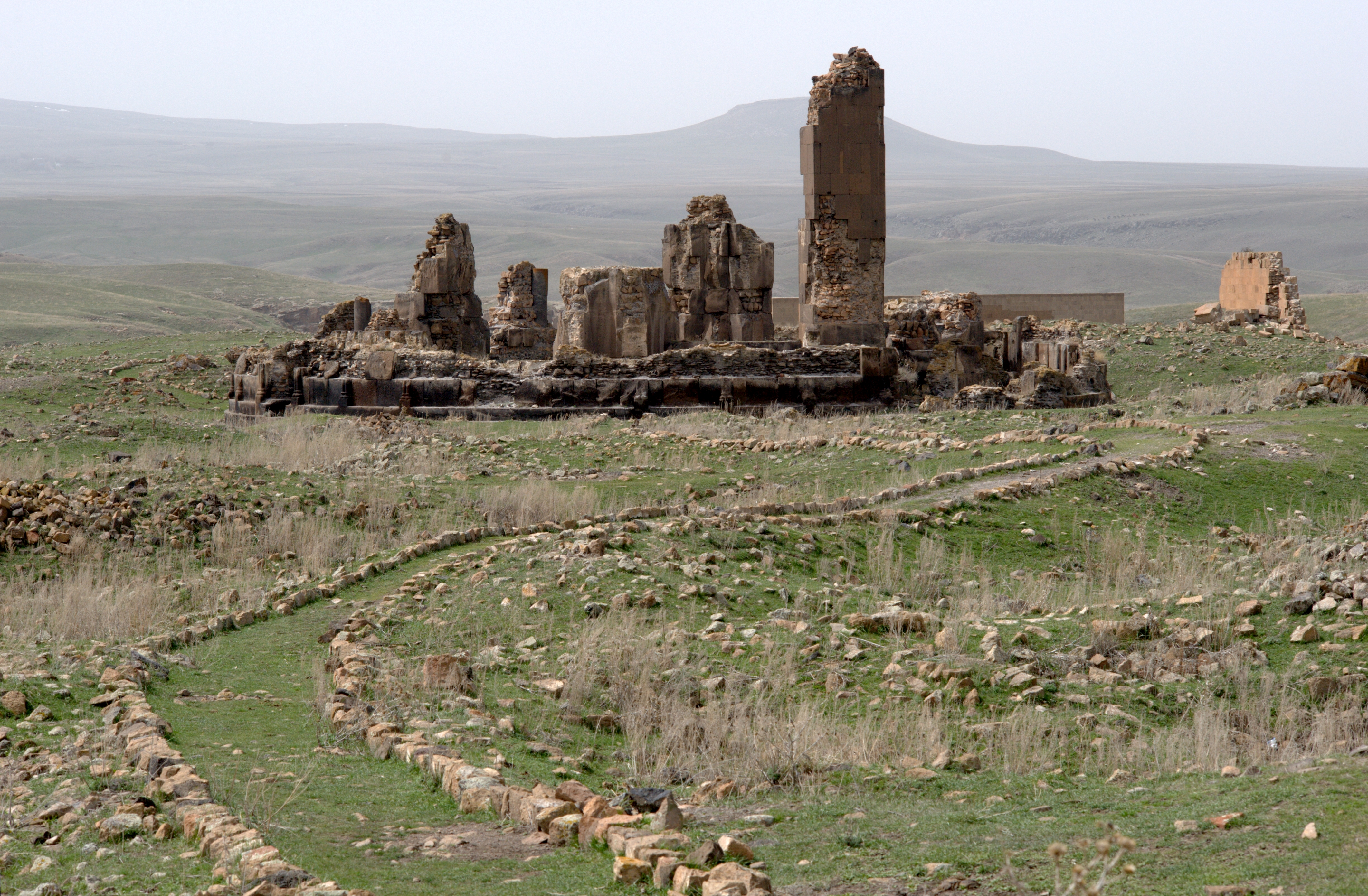 Church of Saint Gregory (King Gagik), Ani, Turkey.